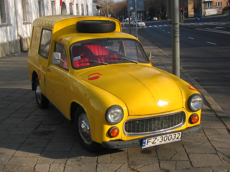 Syrena Bosto from Polish Wikipedia.